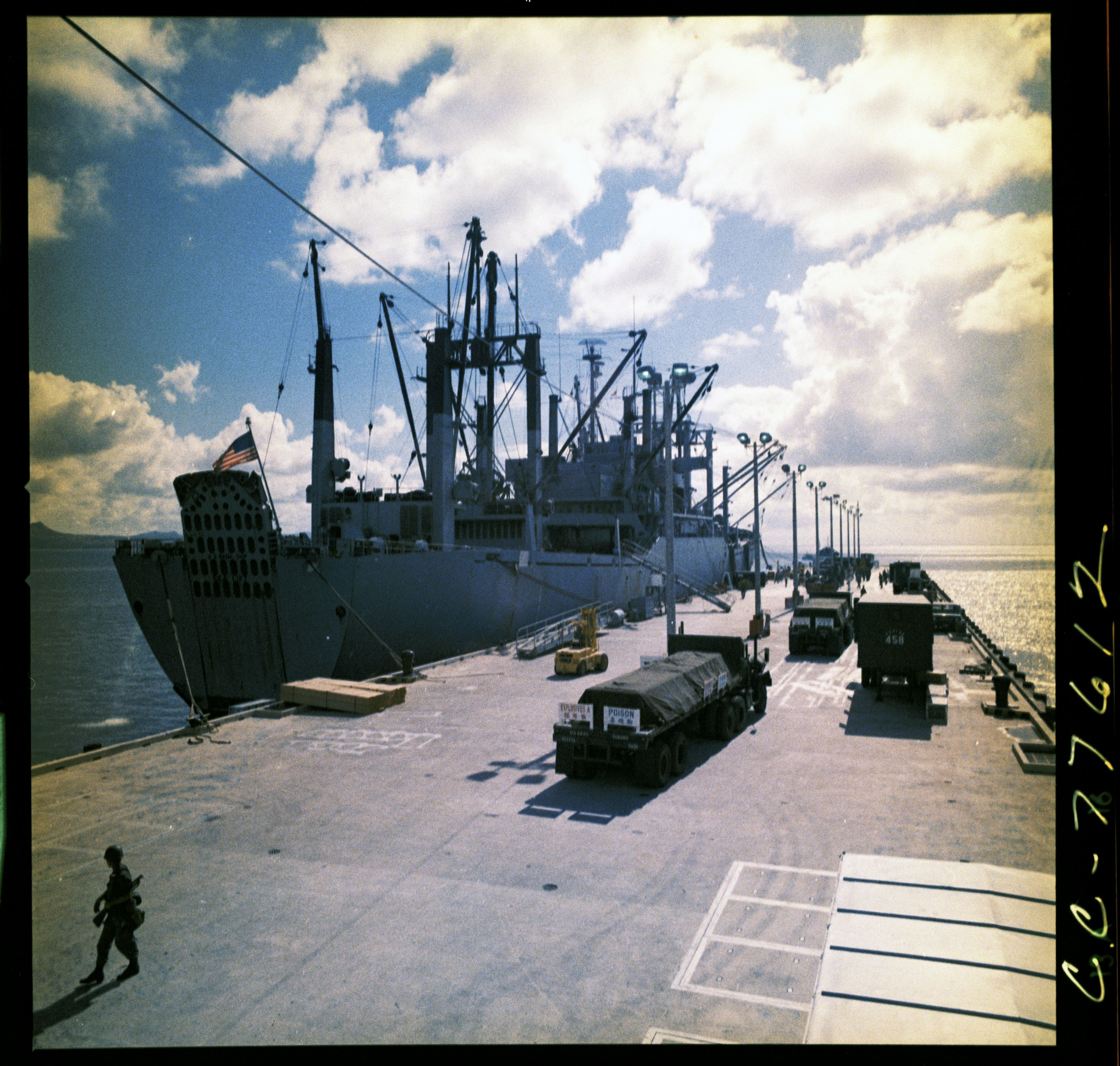 USNS Sealift with nerve agent at Tengan Pier, Okinawa, July 1971 during Operation Red Hat